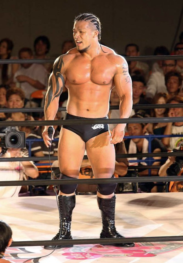 A Japanese professional wrestler Shigemasa Kanaya, known by his ringname Zeus, at the Hustle.